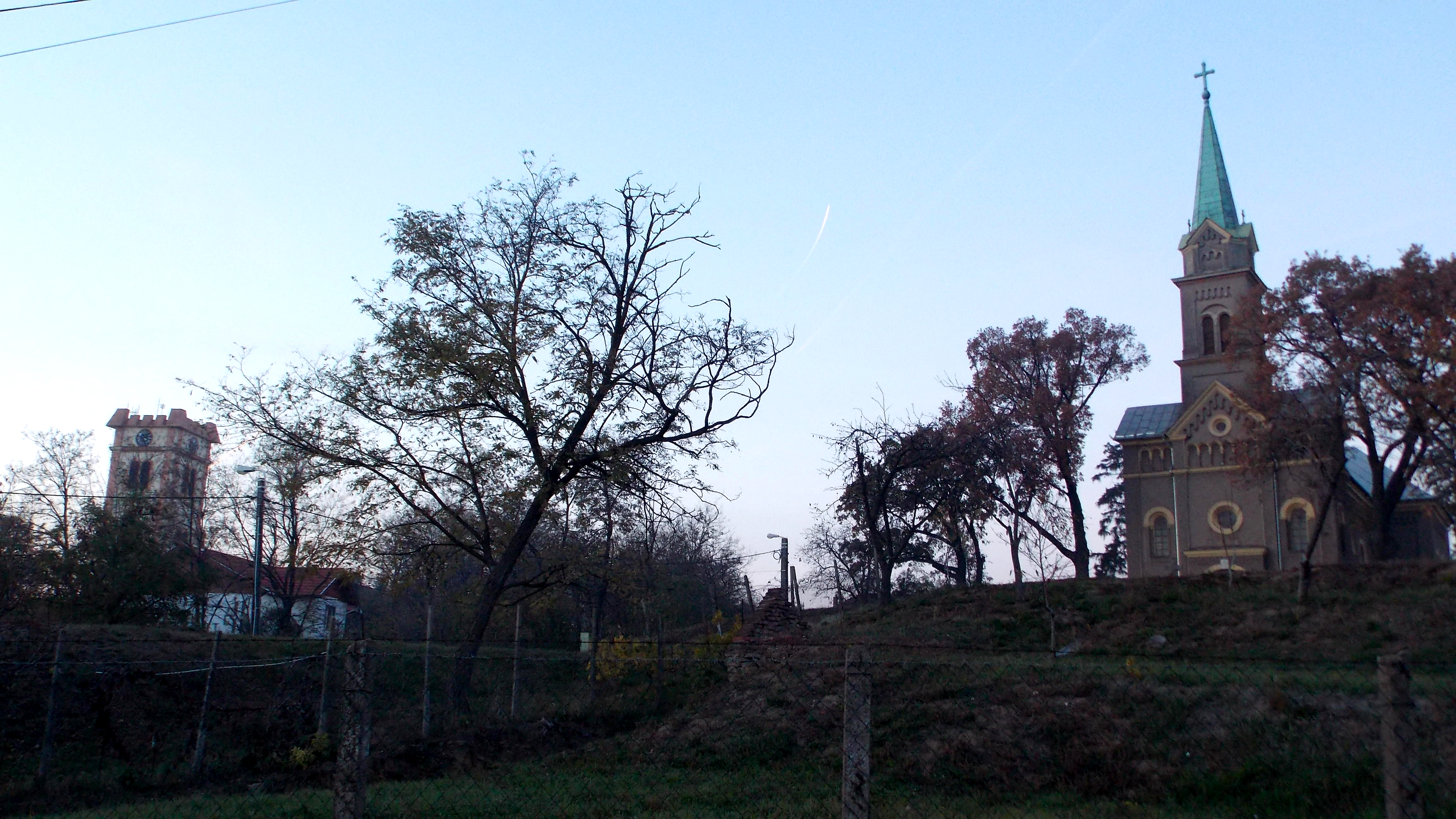 Oradea*Episcopia Bihor Reformed Church and Belltower -left 01